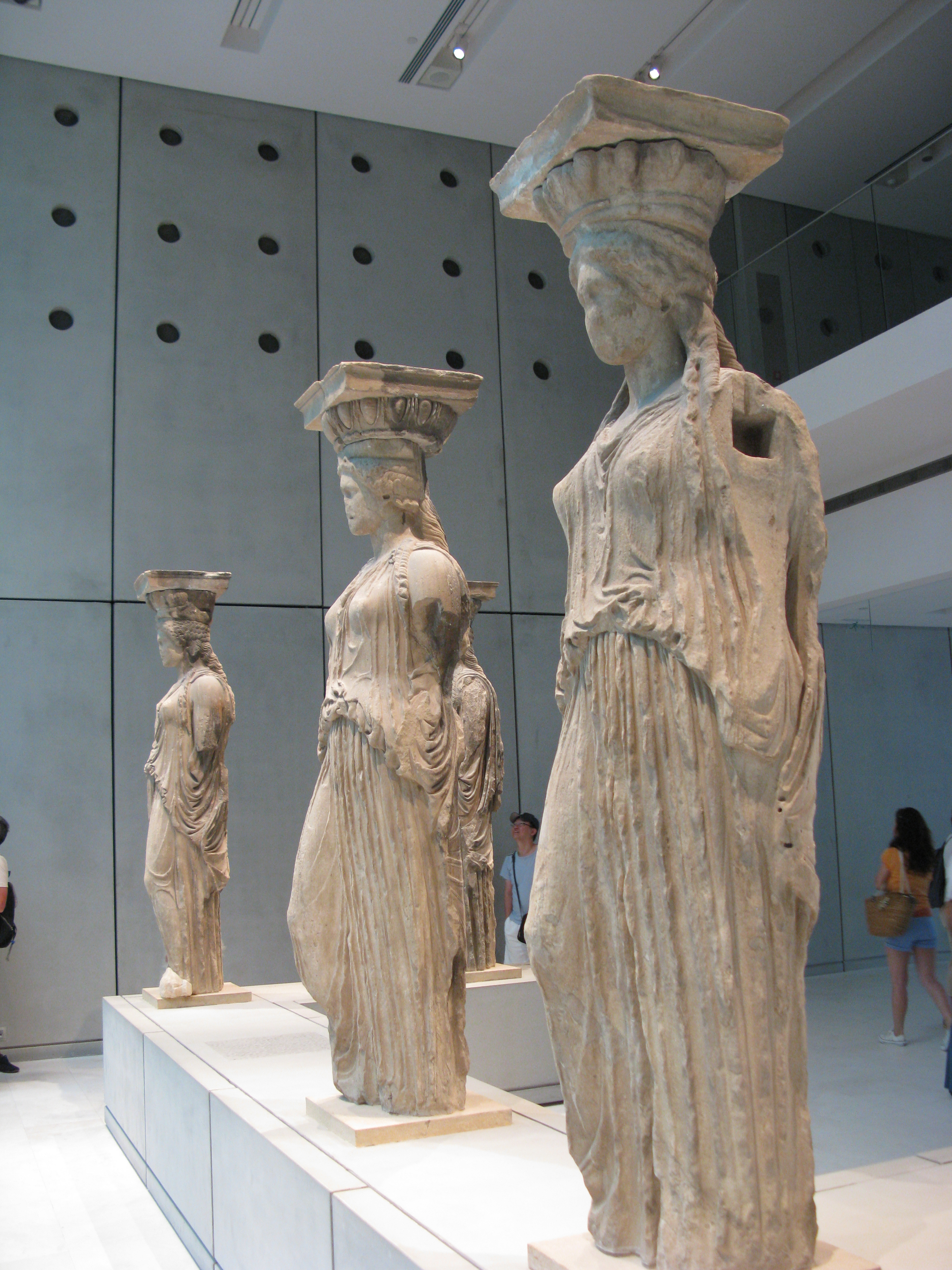 Porch of the Maidens (Caryatids), Acropolis New Museum.